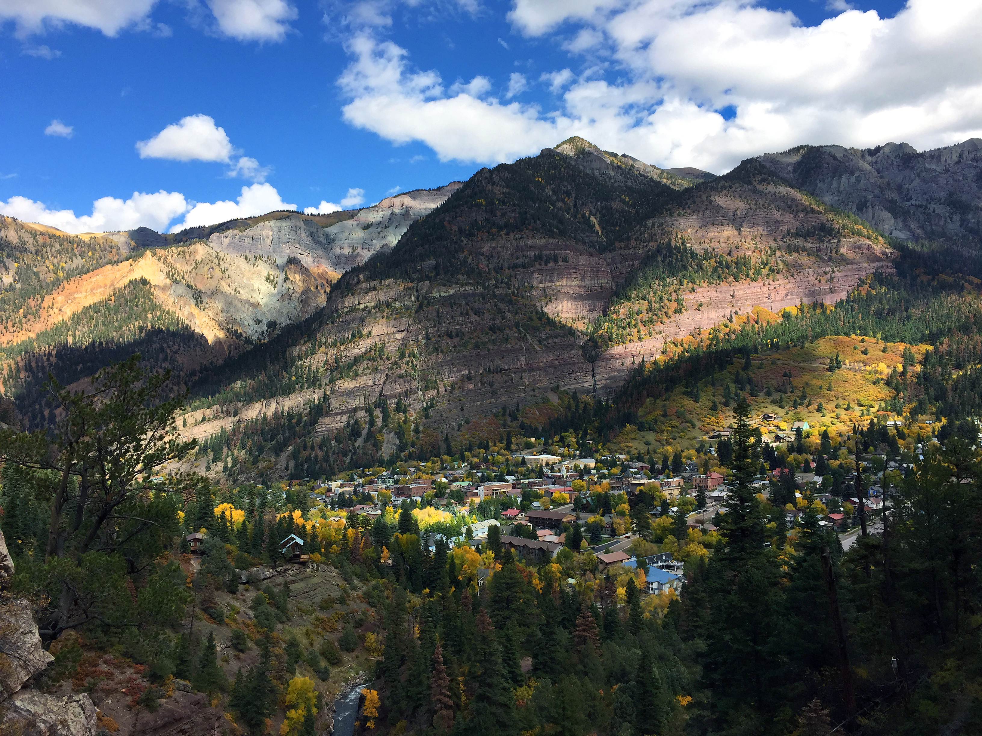 View of Ouray, CO from the Perimeter Trail